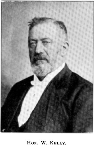 Image of Hon. William Kelly taken from "The Cyclopedia of New Zealand [Auckland Provincial District]" published in Auckland, New Zealand in 1902, and made available by the New Zealand Electronic Text Centre (NZETC) under the Creative Commons Attribution-Share Alike 3.0 New Zealand Licence